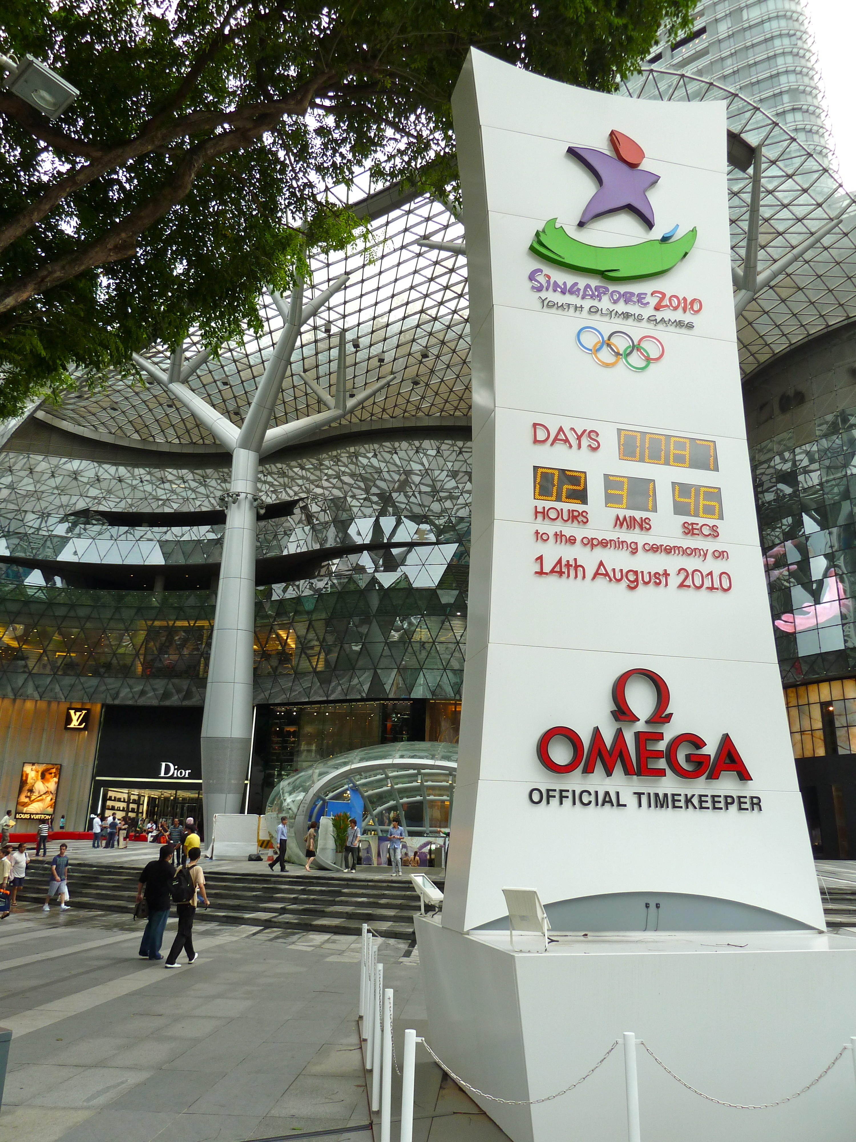 An Omega countdown clock for the 2010 Singapore Youth Olympics at the corner of Orchard Road and Scotts Road in front of ION Orchard.